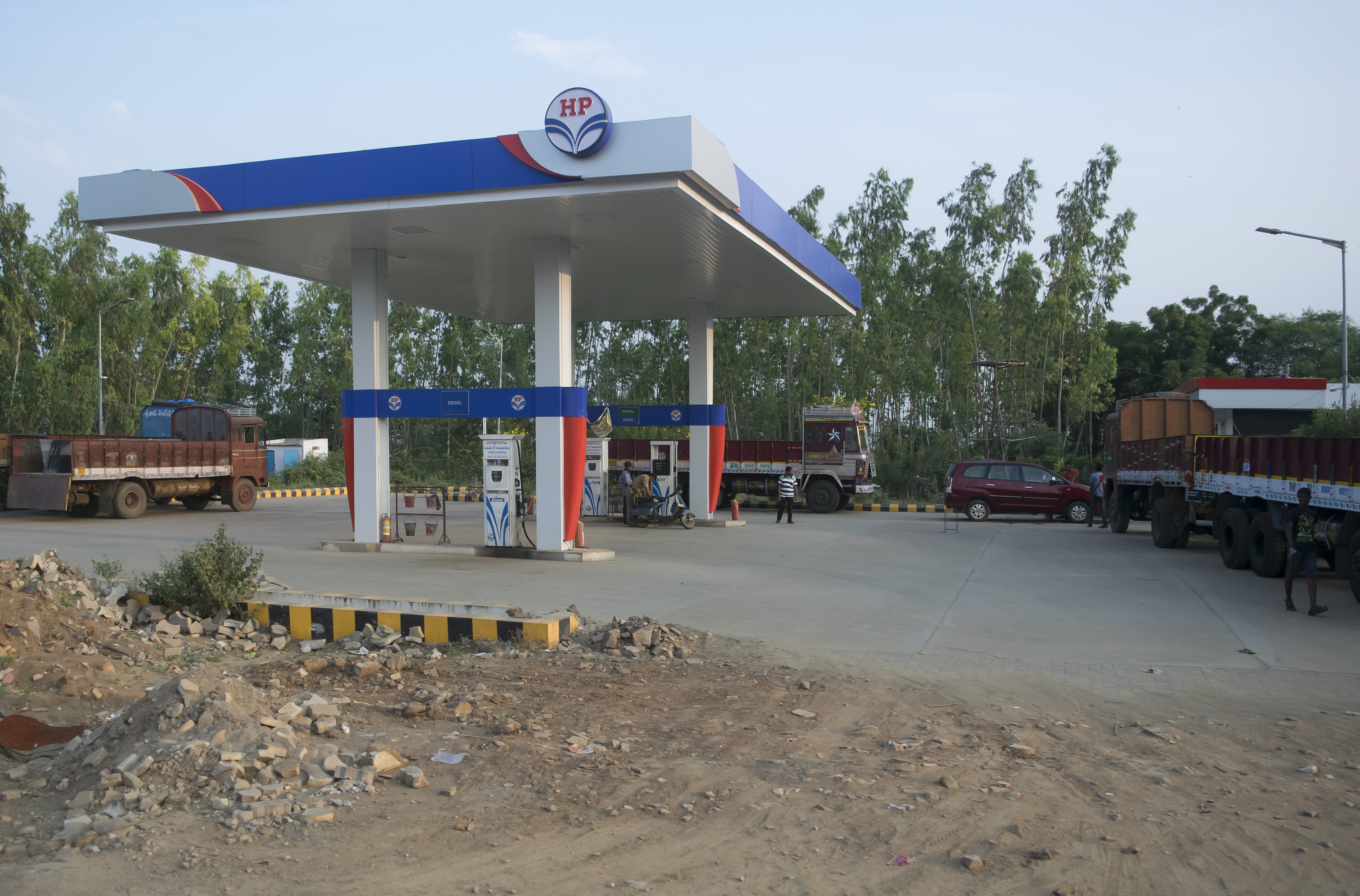 A petrol filling station belonging to Hindustan Petroleum